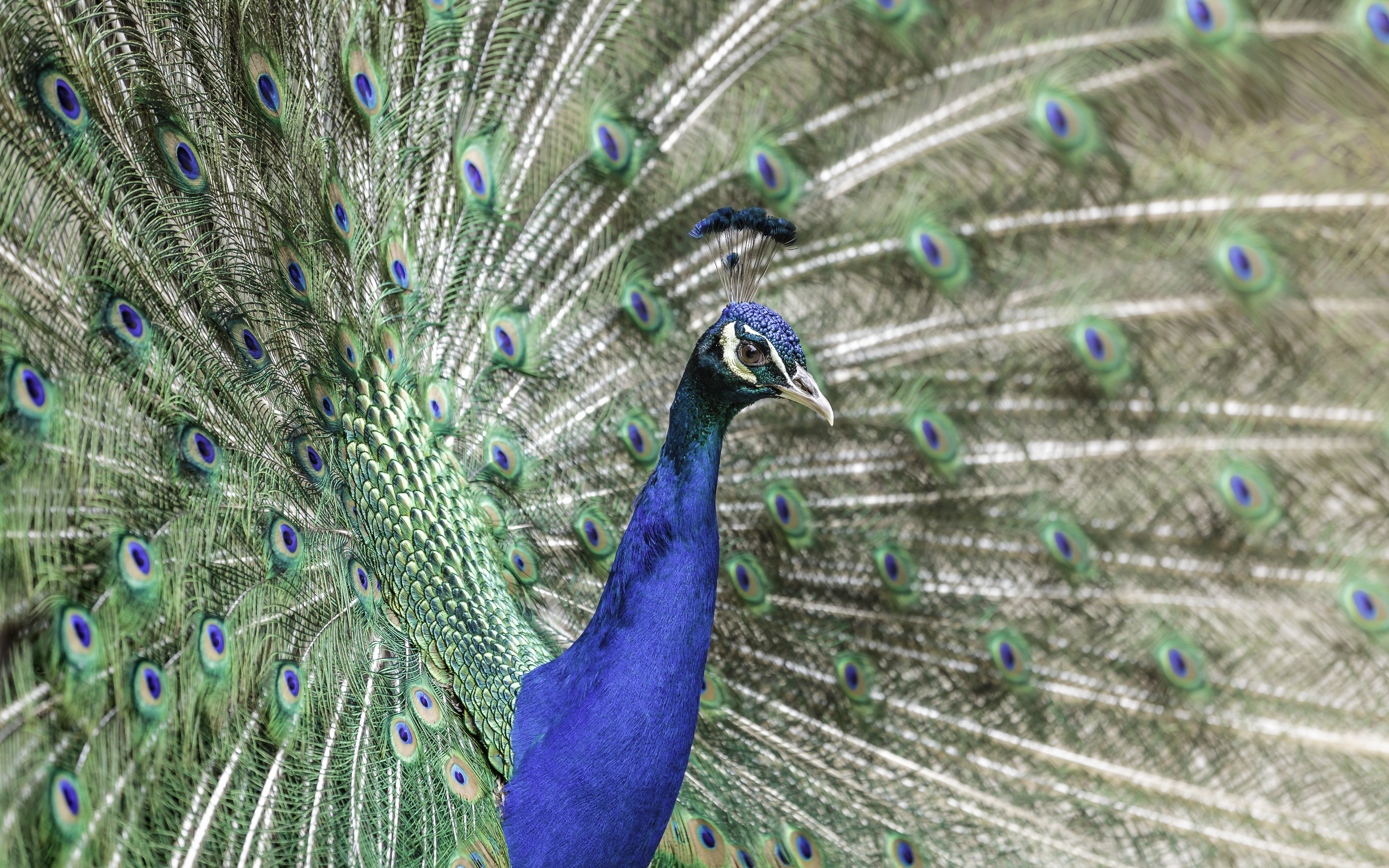 Naturtierpark Grünau, Grünau im Almtal, Austria